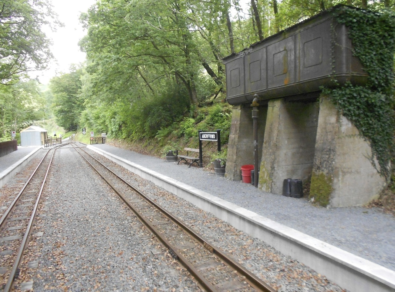 Aberffrwd railway station on the Vale of Rheidol Railway in Wales.